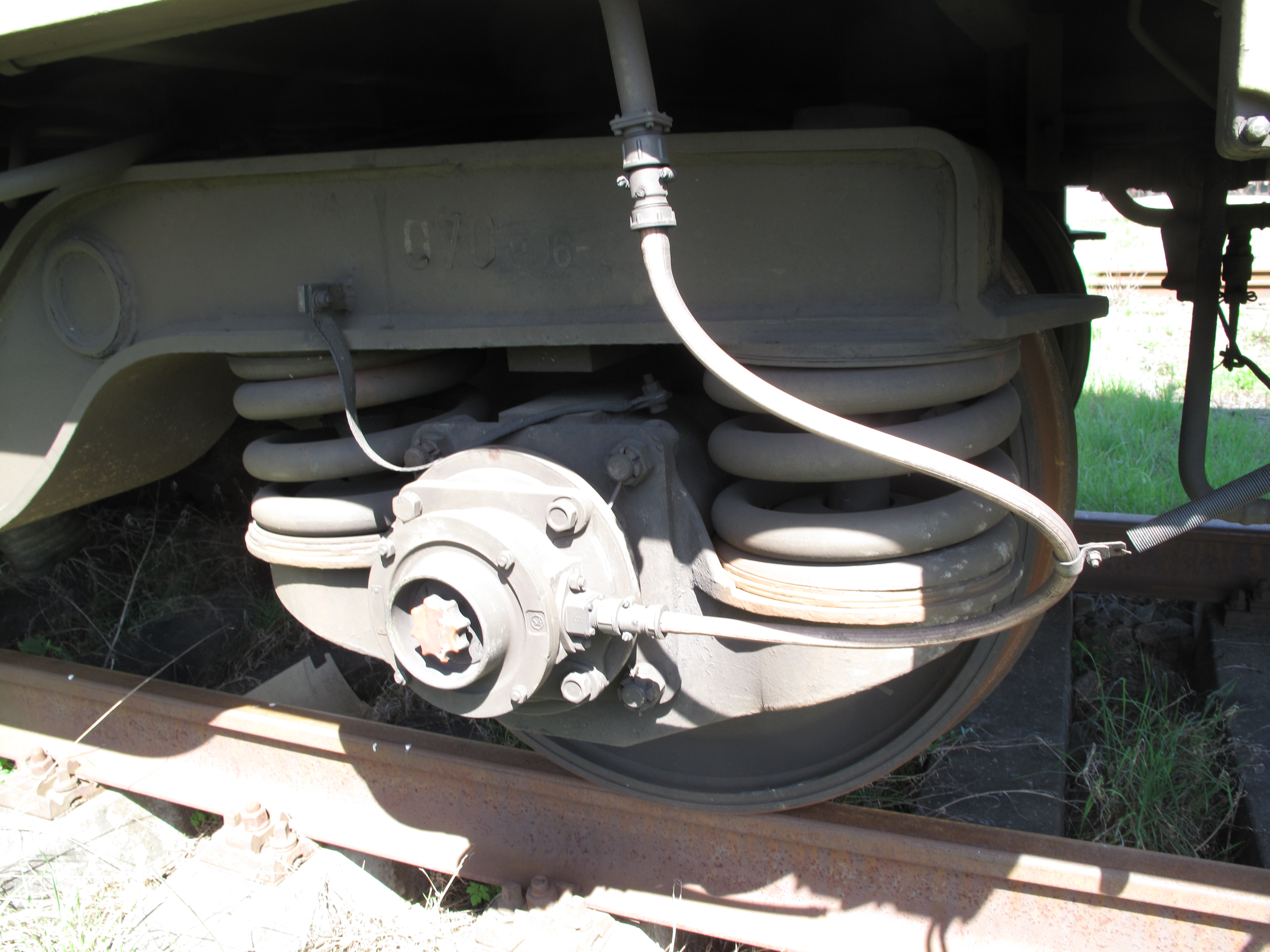 Bogie of the trailer class 070 from EMU class 470 - wheelset with speed sensor of the anti-slip device.